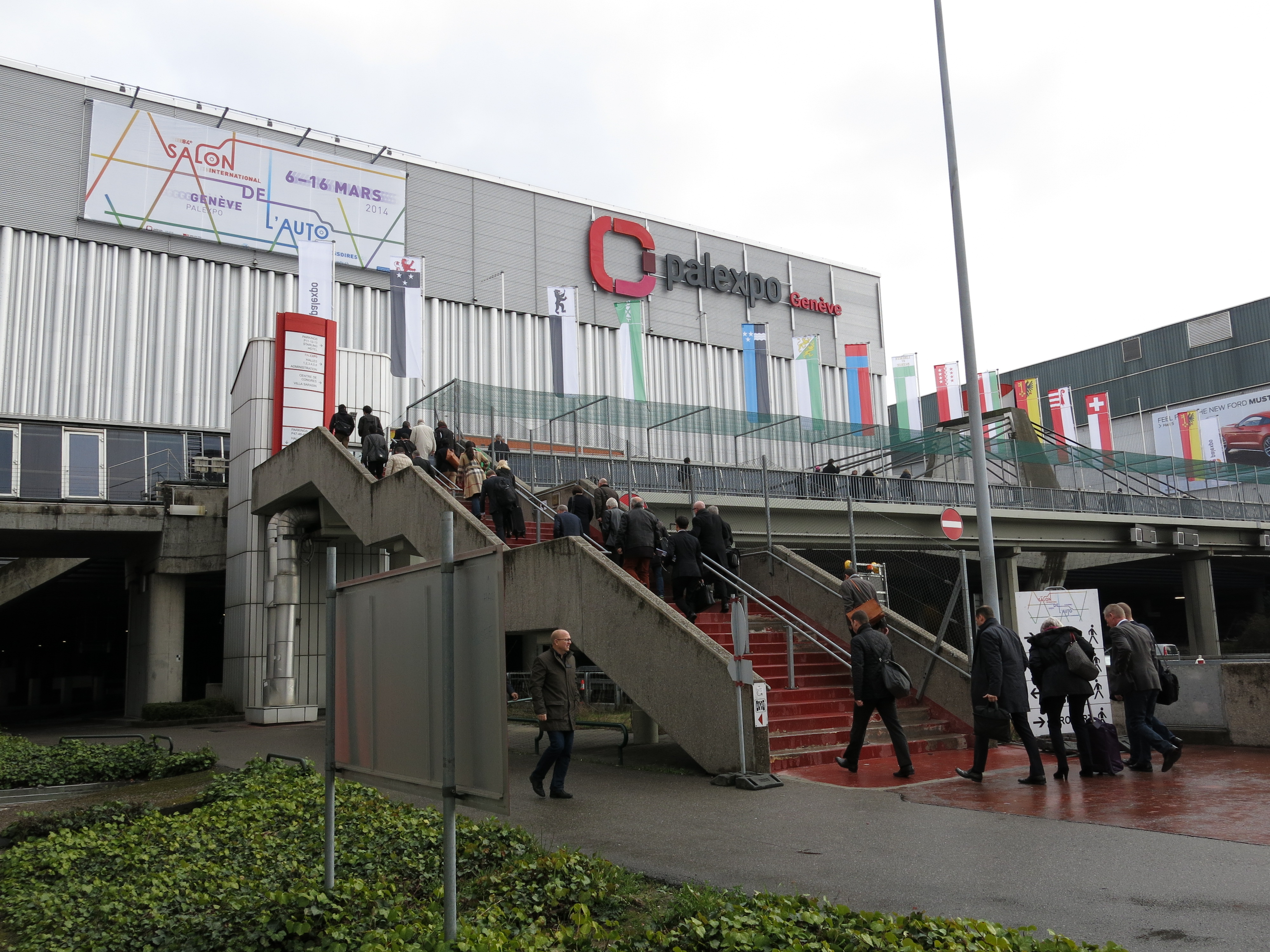 Geneva Motor Show 2014 (photo taken on the first press day)